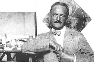 Richard Roland Holst (1868-1938). Place, date and photographer unknown, possibly around 1910